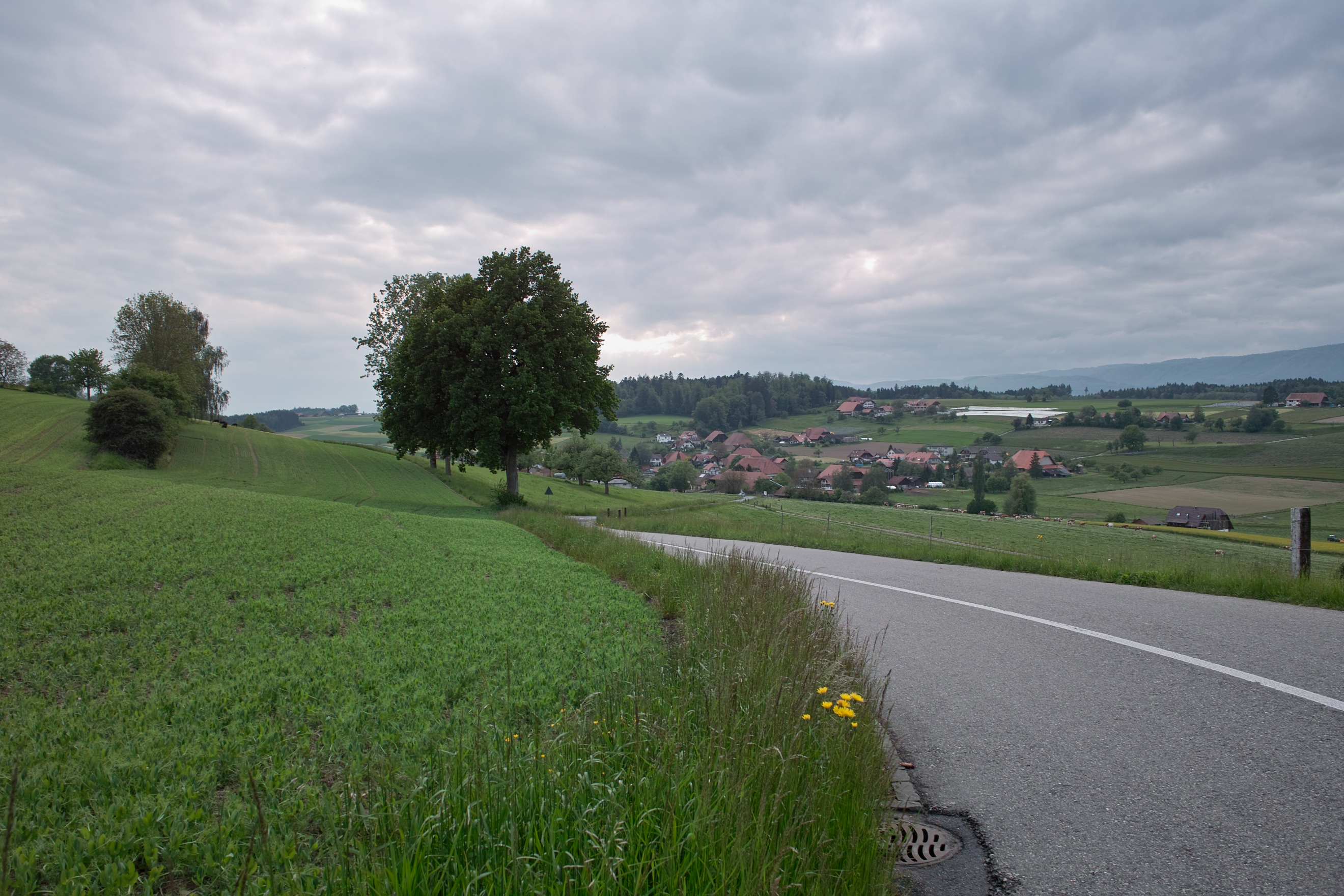 View of the village of Bibern, canton of Solothurn, Switzerland.